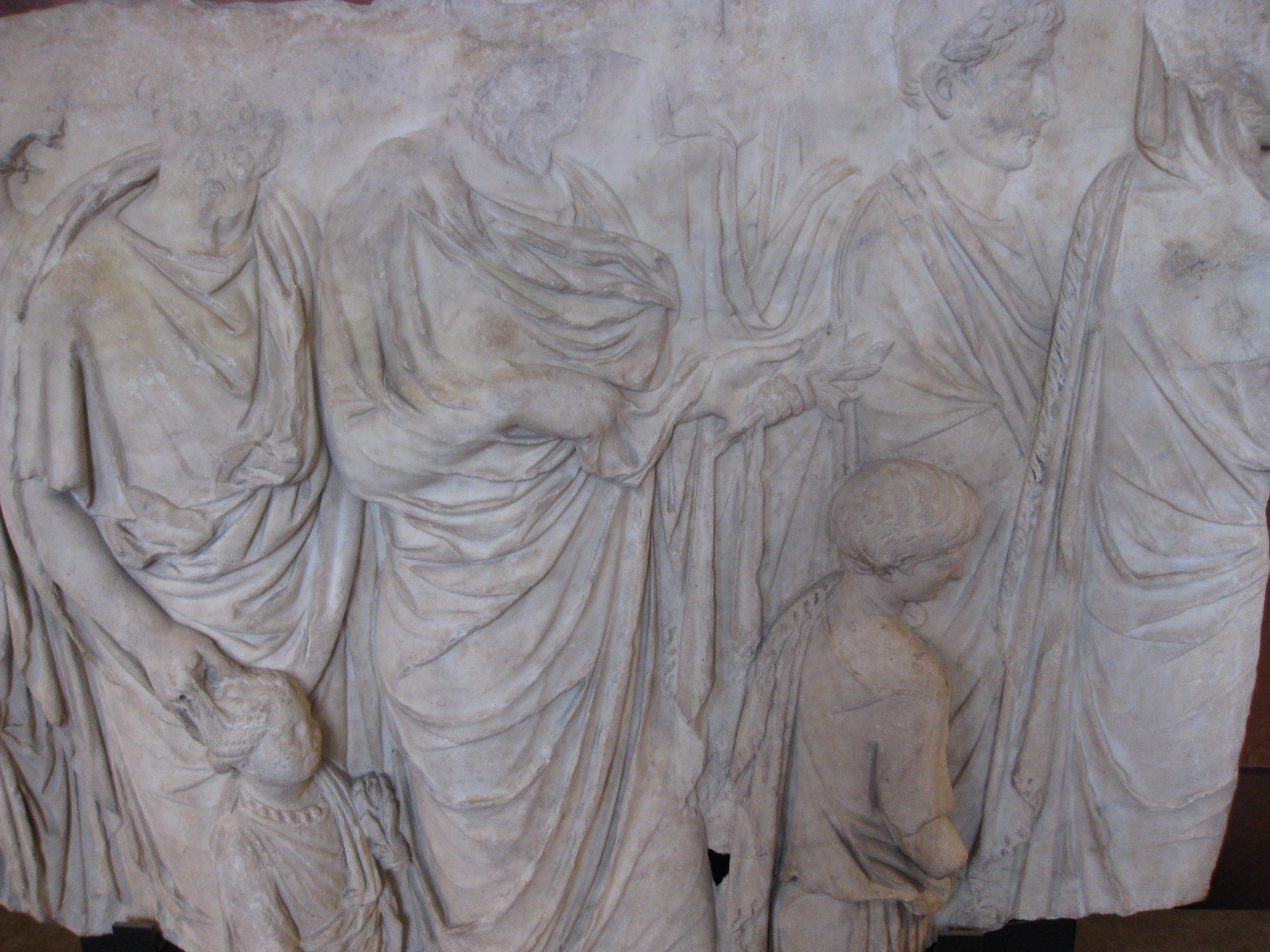 Fragment of the Ara Pacis - the Louvre